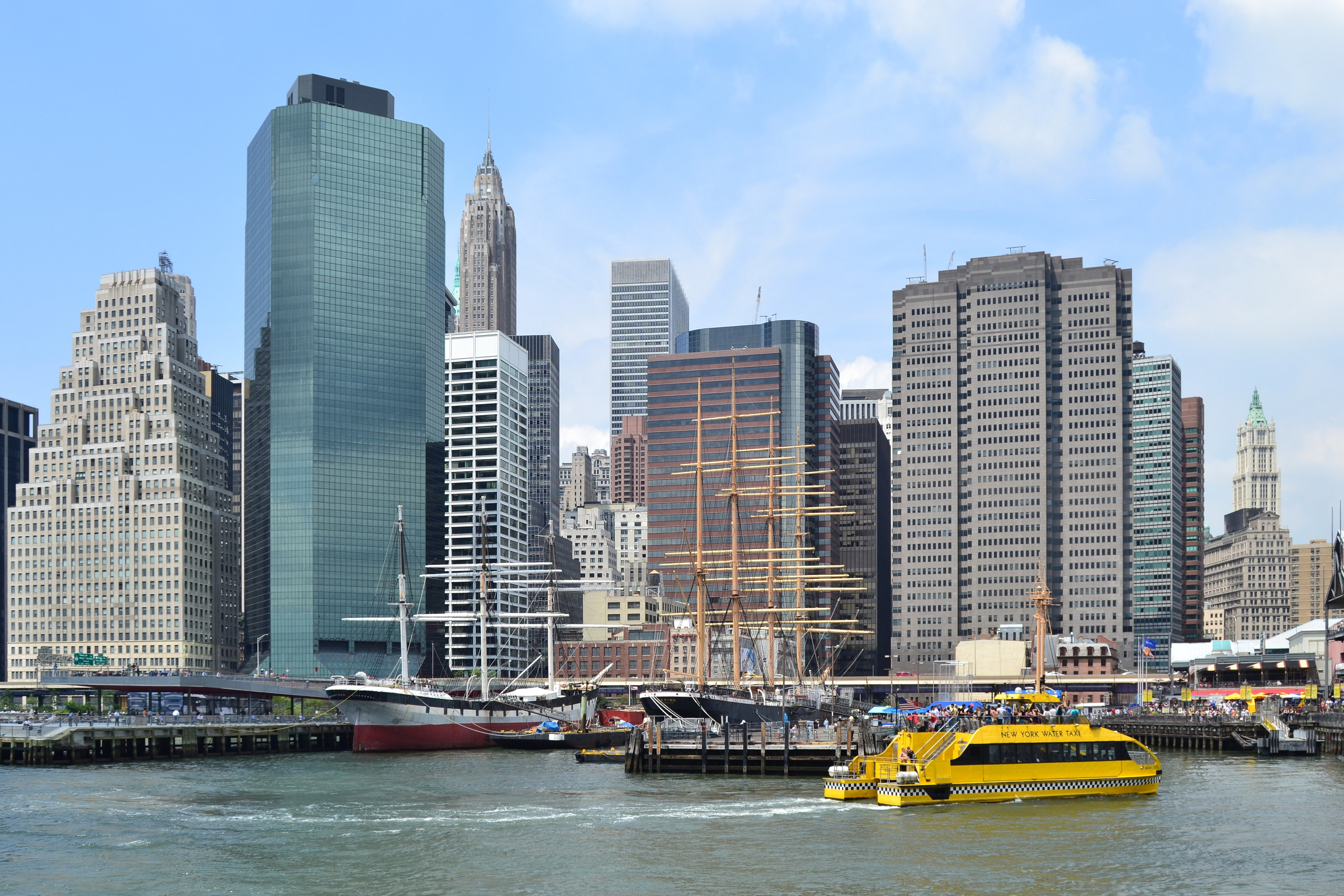 New York, Manhattan, South Street Seaport